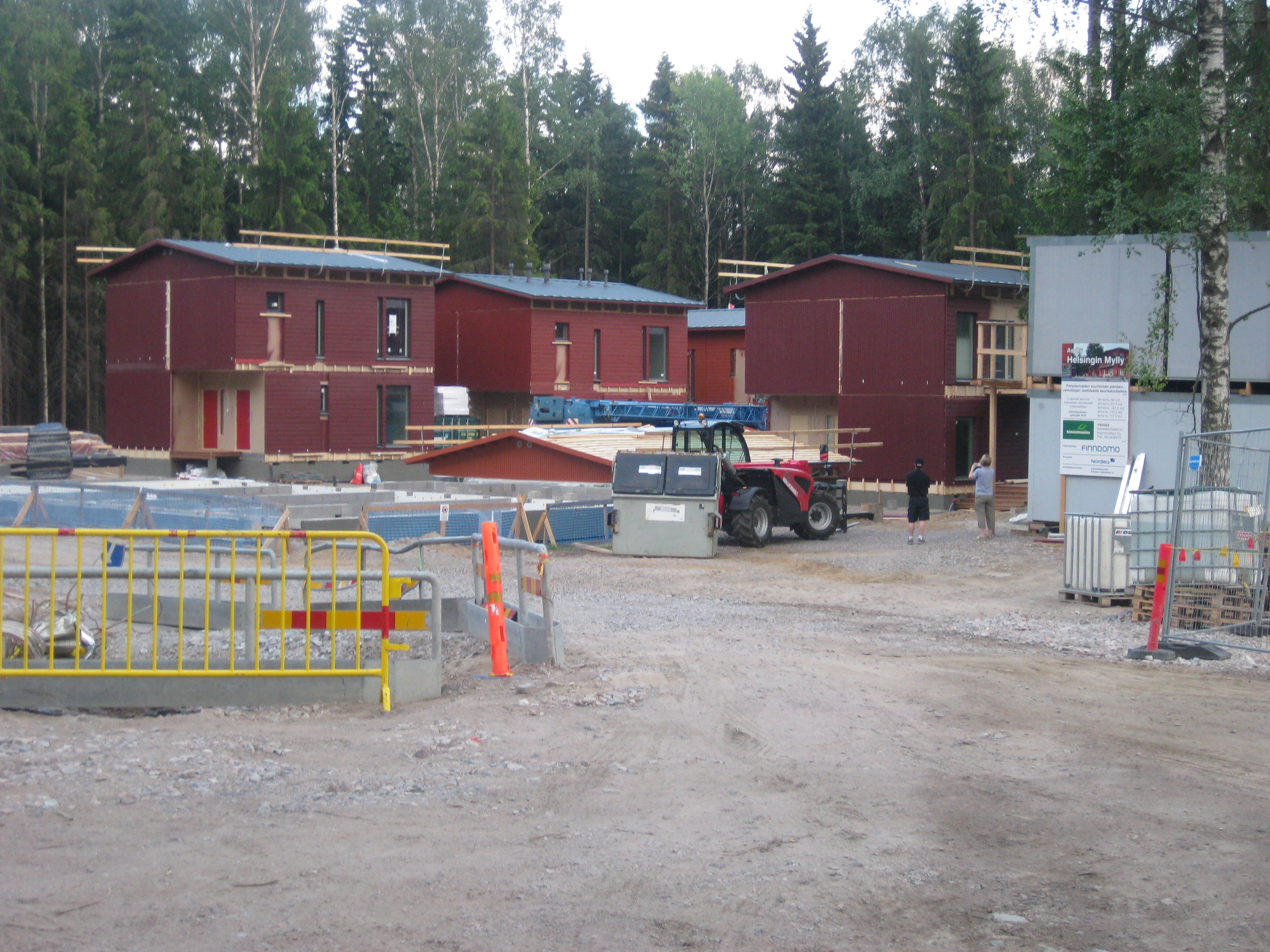 Myllykylä neighbourhood in Myllypuro, Helsinki